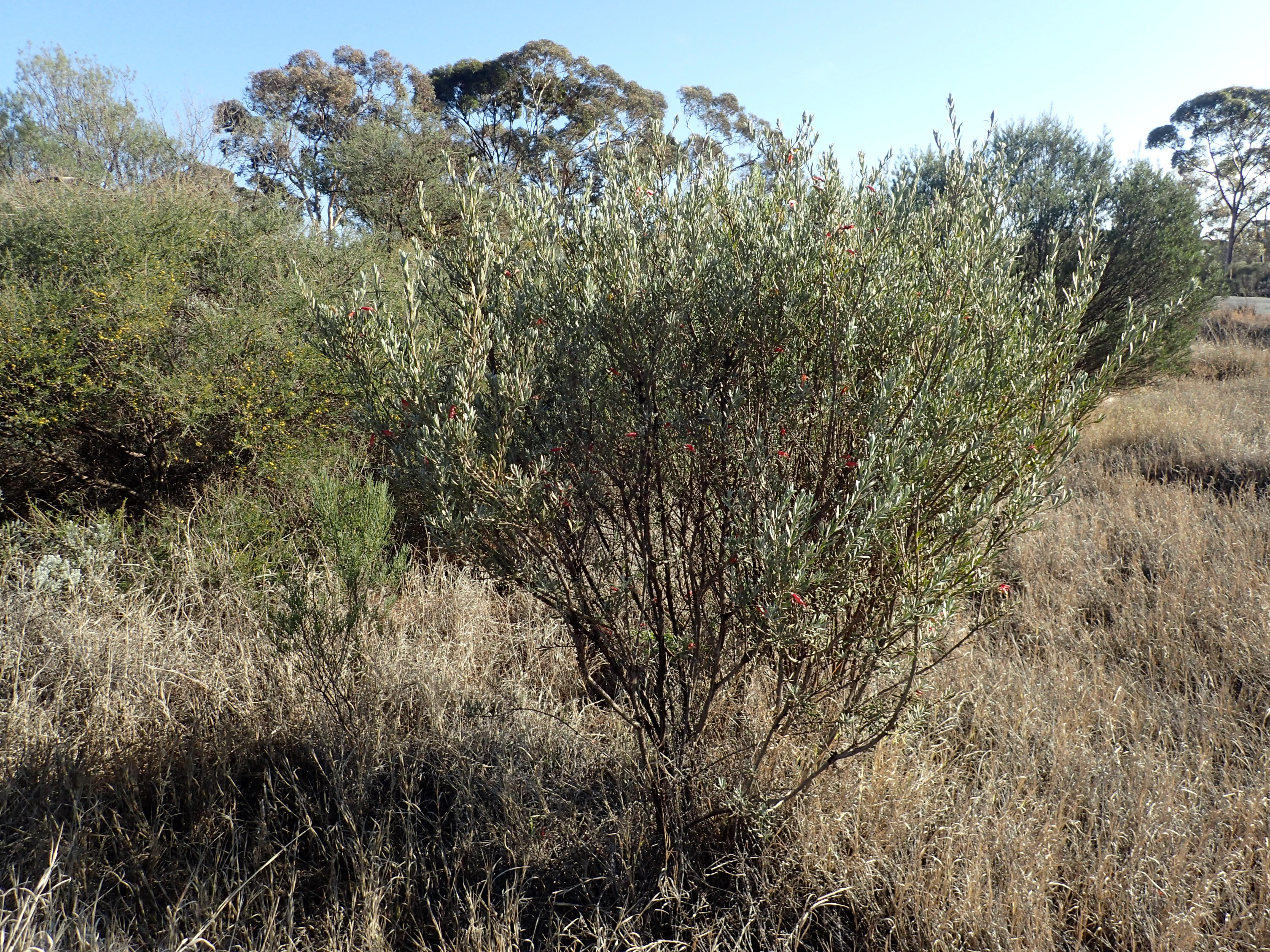 Eremophila glabra glabra growing 5km north of Kalgoorlie